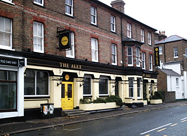 The Alex Pub in Alexandra Street, Southend.